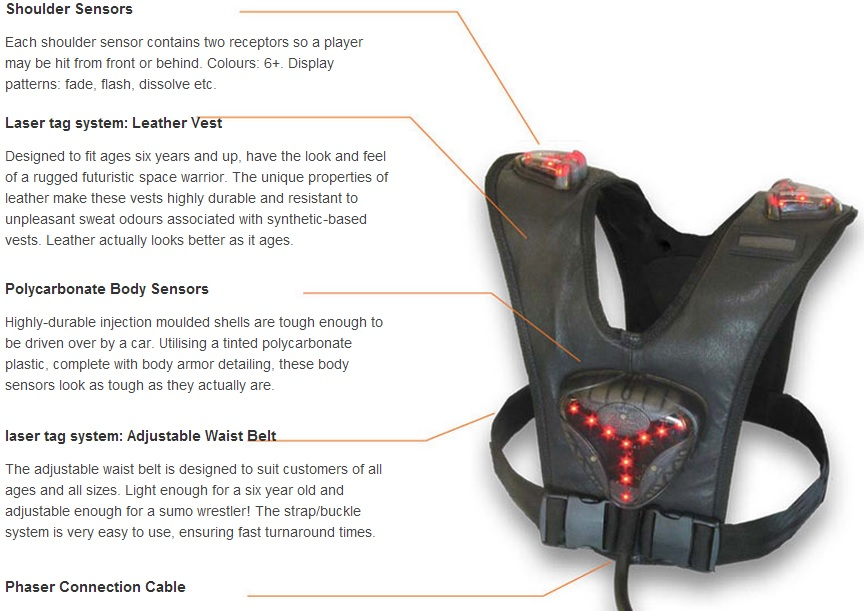 Delta Strike laser tag equipment: Laser tag vest